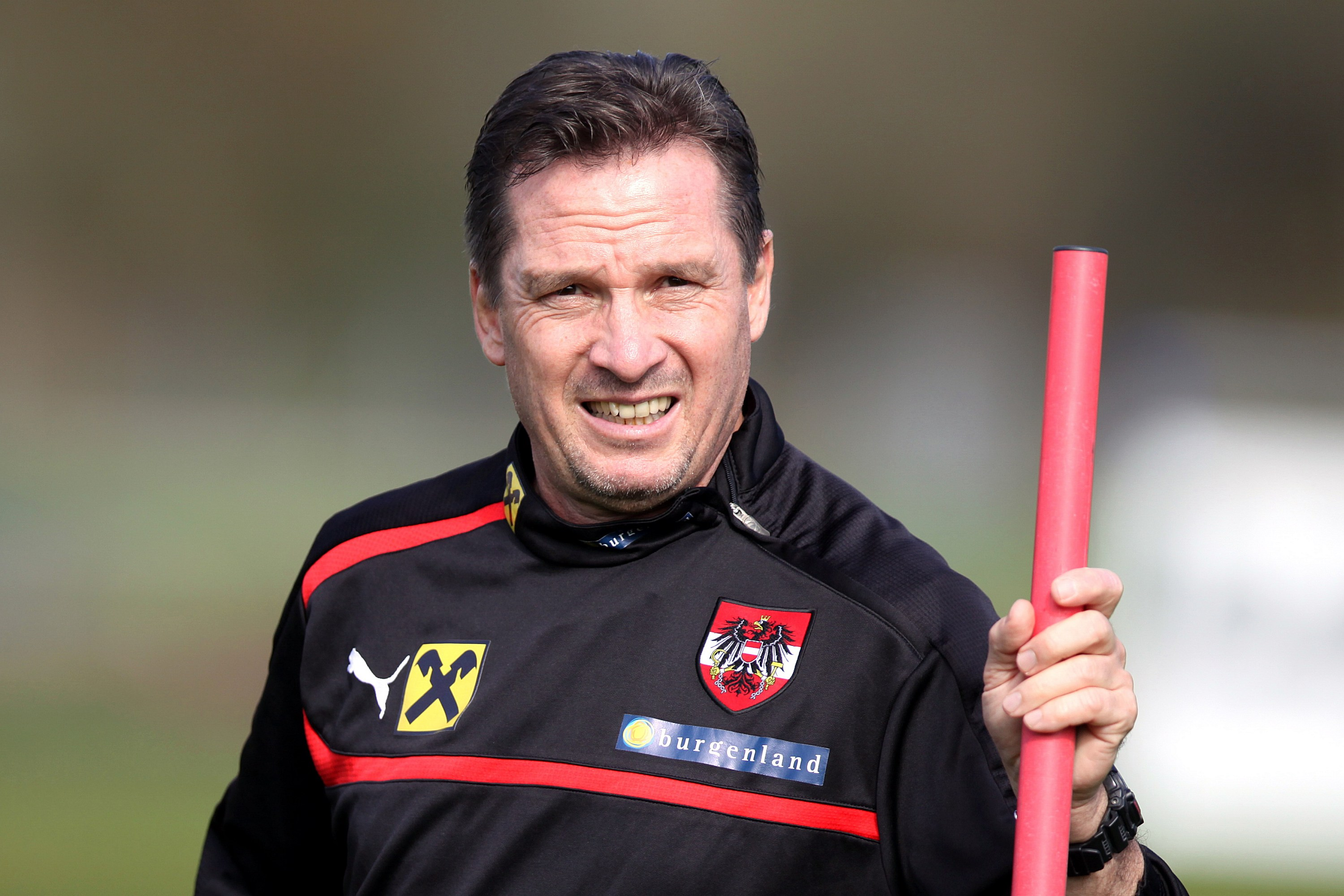 Teamcamp of the Austria national under-21 football team on 5.–9. October 2015 in Bad Erlach – The photo shows teamchef Werner Gregoritsch